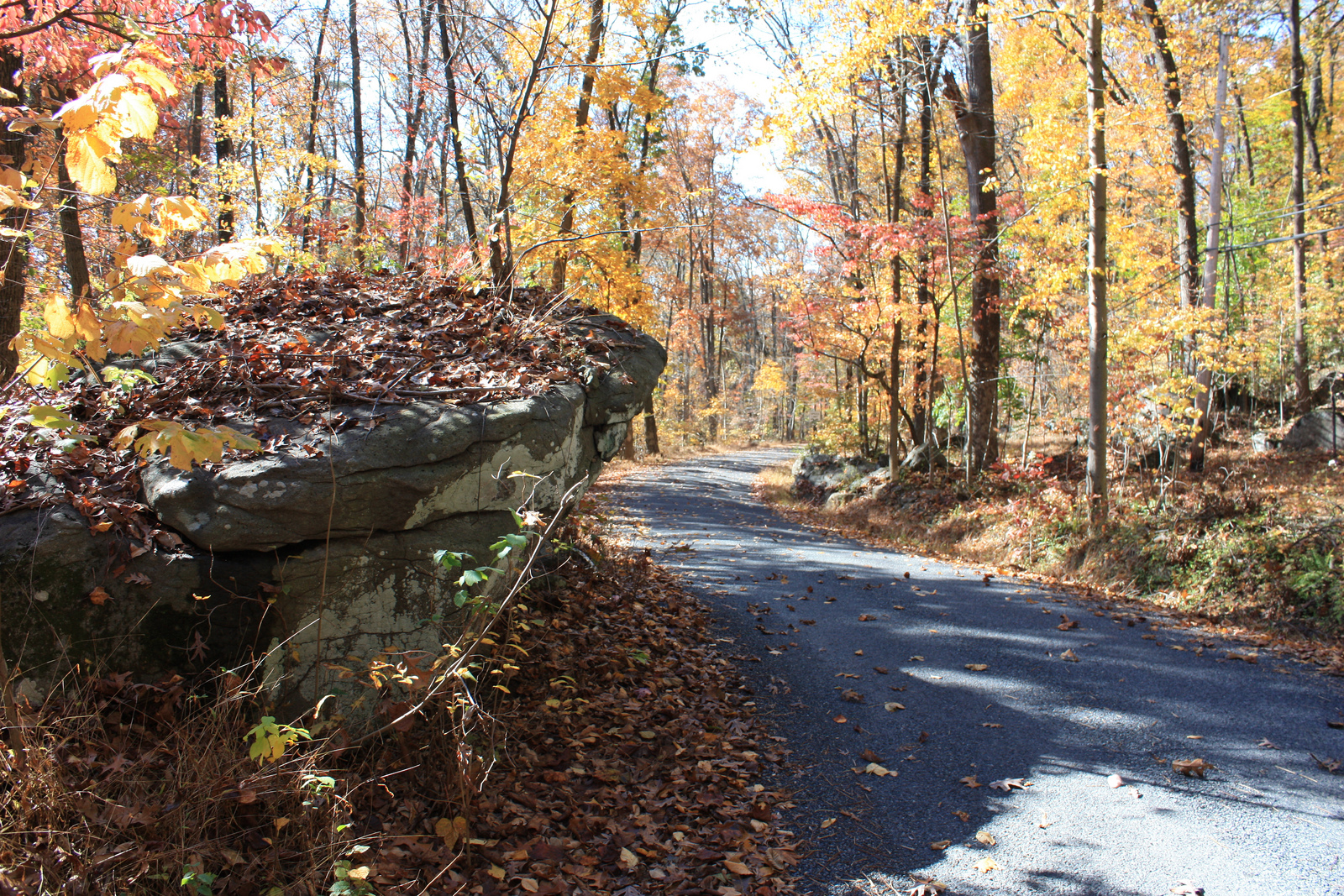 Known as Deep Woxall